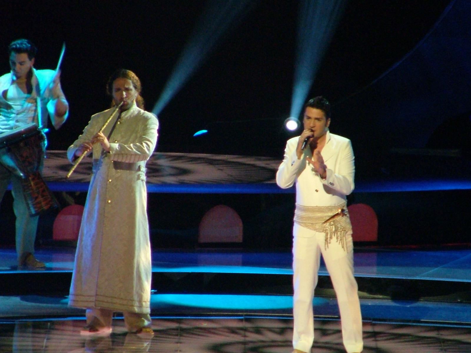 Zeljko Joksimovic performing "Lane Moje" in Eurovision 2004.